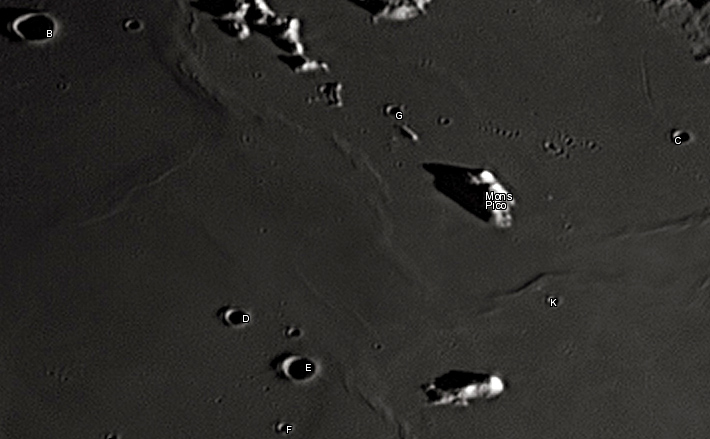 Mons Pico lunar crater as seen from Earth with satellite craters labeled